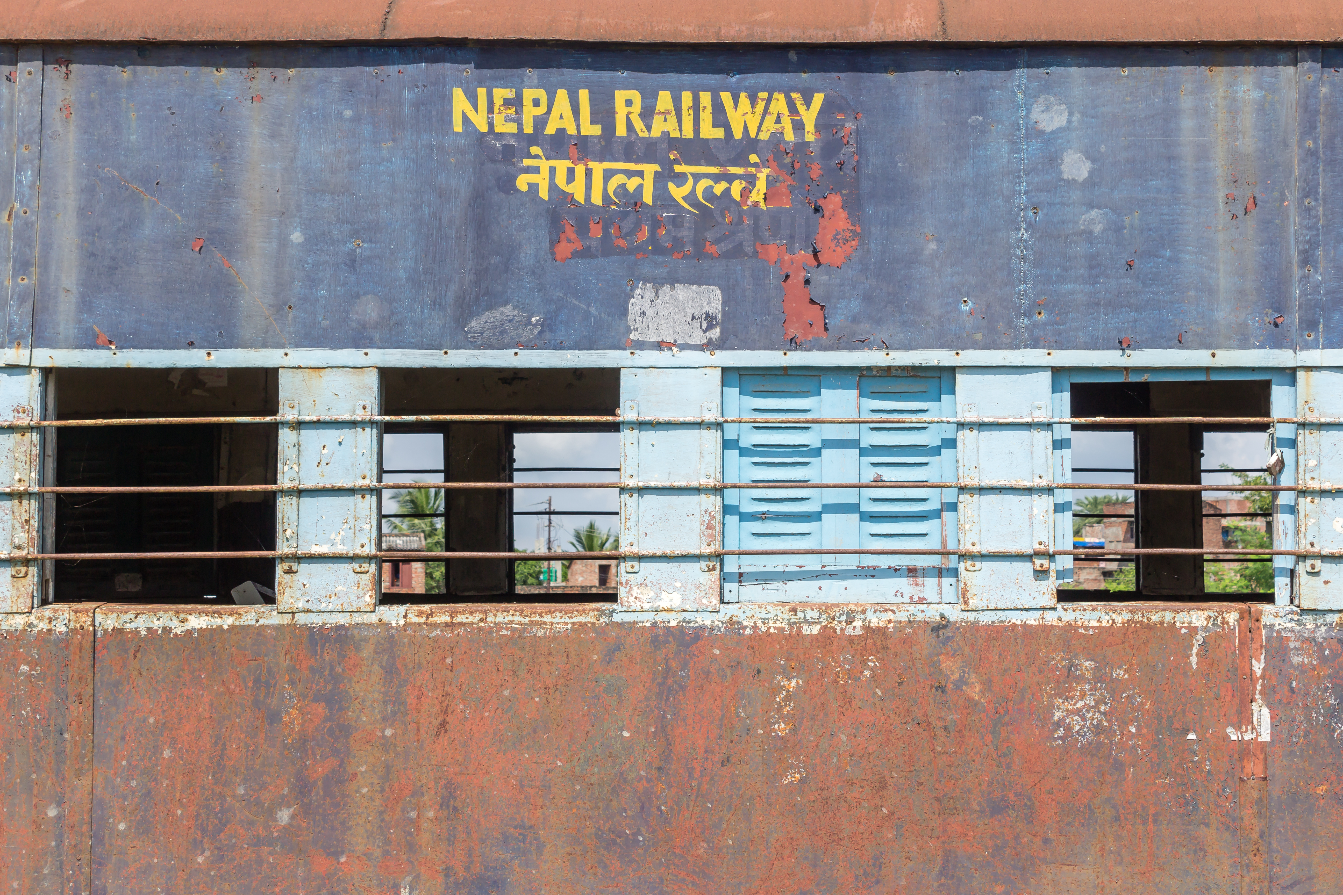 Abandoned Train at Janakpur station The Nepal Railways Corporation Ltd. (NRC) (reporting mark NR / ने. रे) is owned by the government of Nepal. It maintains and operates two railway lines: a 6 km, 1,676 mm (5 ft 6 in) line from Raxaul in India to Sirsiya Inland Container Depot or Dry Port near Birganj in Nepal and a 53 km 2 ft 6 in (762 mm) narrow gauge line from Jaynagar in India to Bijalpura in Nepal.